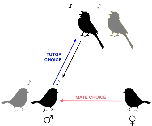 Created by Petra Deane 12.05.11